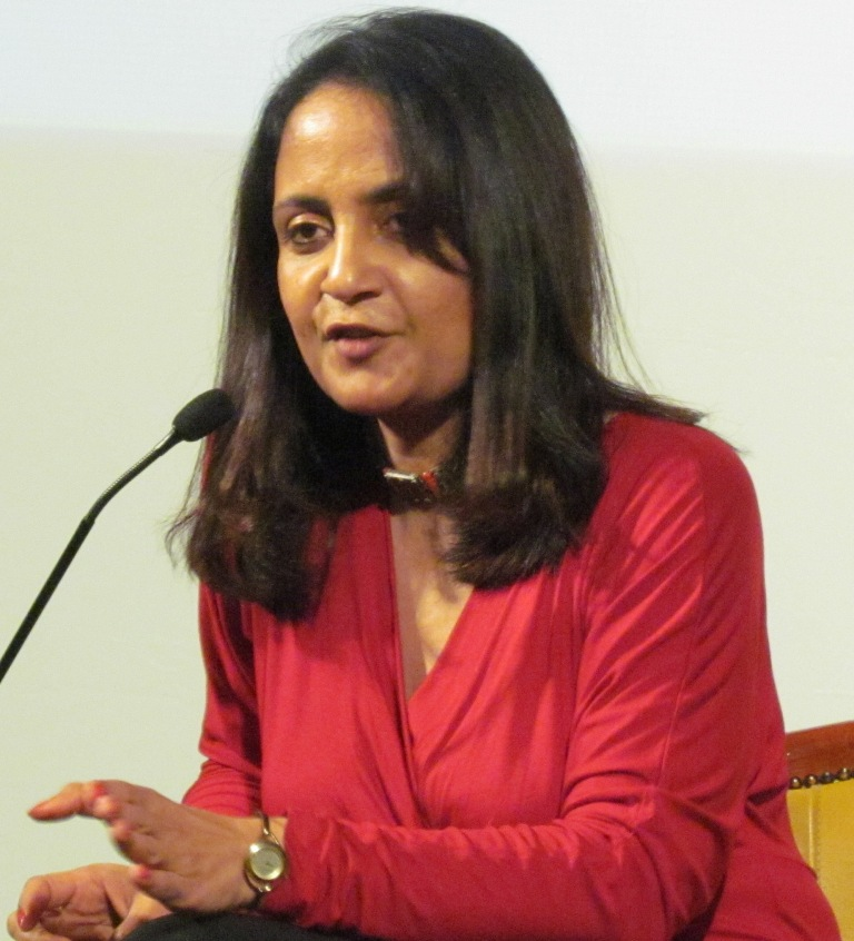 Indian writer Jaisree Misra-This picture taken when she attended a literary programme conducted by Sharjha International Book Fair 2011 on 23rd November 2011